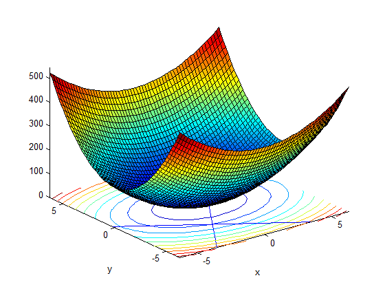 Graph of a paraboloid, its level sets and two line constraints.